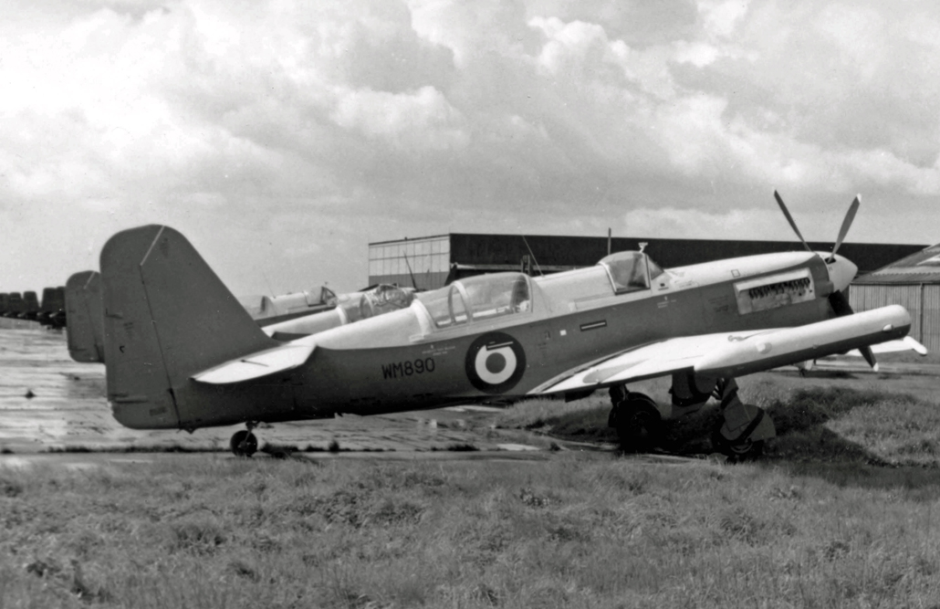 Fairey Firefly U.8 target drone at Manchester (Ringway) Airport